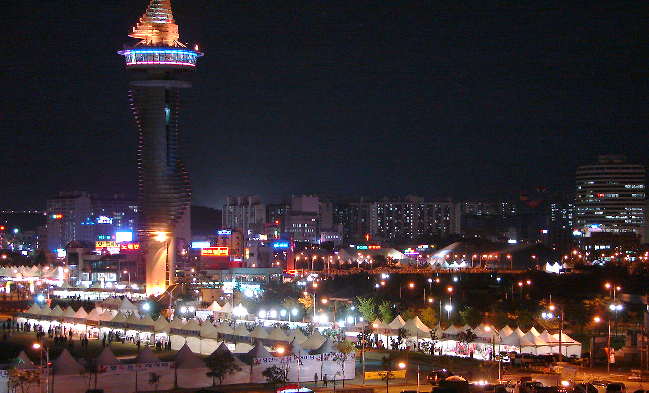 Sokcho and Expo Tower at night